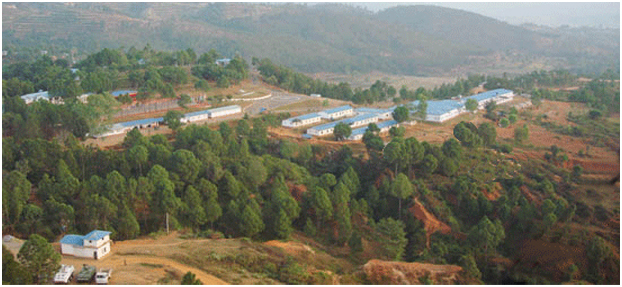 Nepal Army Birendra Peace Operations Training Centre (BPOTC) is a renowned training institute of Nepal which is dedicated for providing training to all Nepalese Army personnel participating in various UNPKO. BPOTC is located at Panchkhal which is 45 km East of Kathmandu and lies 942 meters above mean sea level. The Nepalese Army established an ad hoc "Peace Keeping Training Camp" in 1986, which was subsequently restructured into a dedicated Training centre in 2001. It was renamed as Birendra Peace Operations Training Center with the motto "PEACE WITH HONOUR". Within a very short period of its establishment BPOTC has made remarkable achievements in producing professional Peacekeepers. Today BPOTC trains almost 6000 Peacekeepers annually prior to their deployment in various PKO.